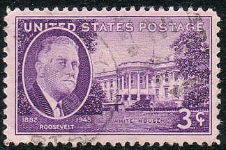 US stamp honoring Franklin D. Roosevelt